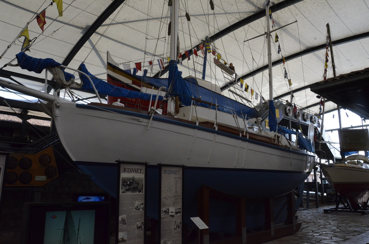 Kısmet (Turkish for "Fortune") at Rahmi Koç Museum, Istanbul: Boat of the Sadun Boro first Turkish amateur sailor to circumnavigate the globe by sailing.